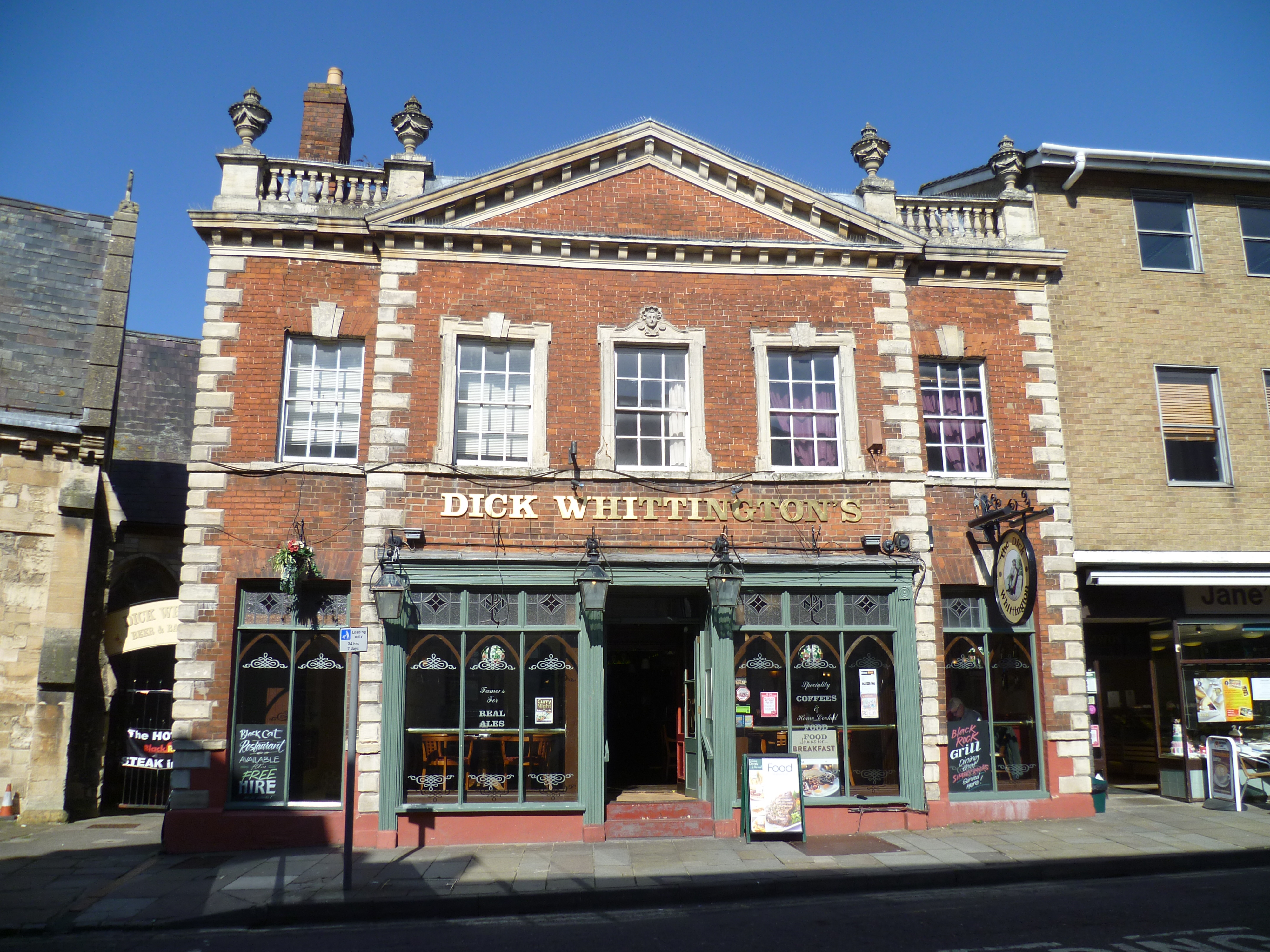 Gloucester